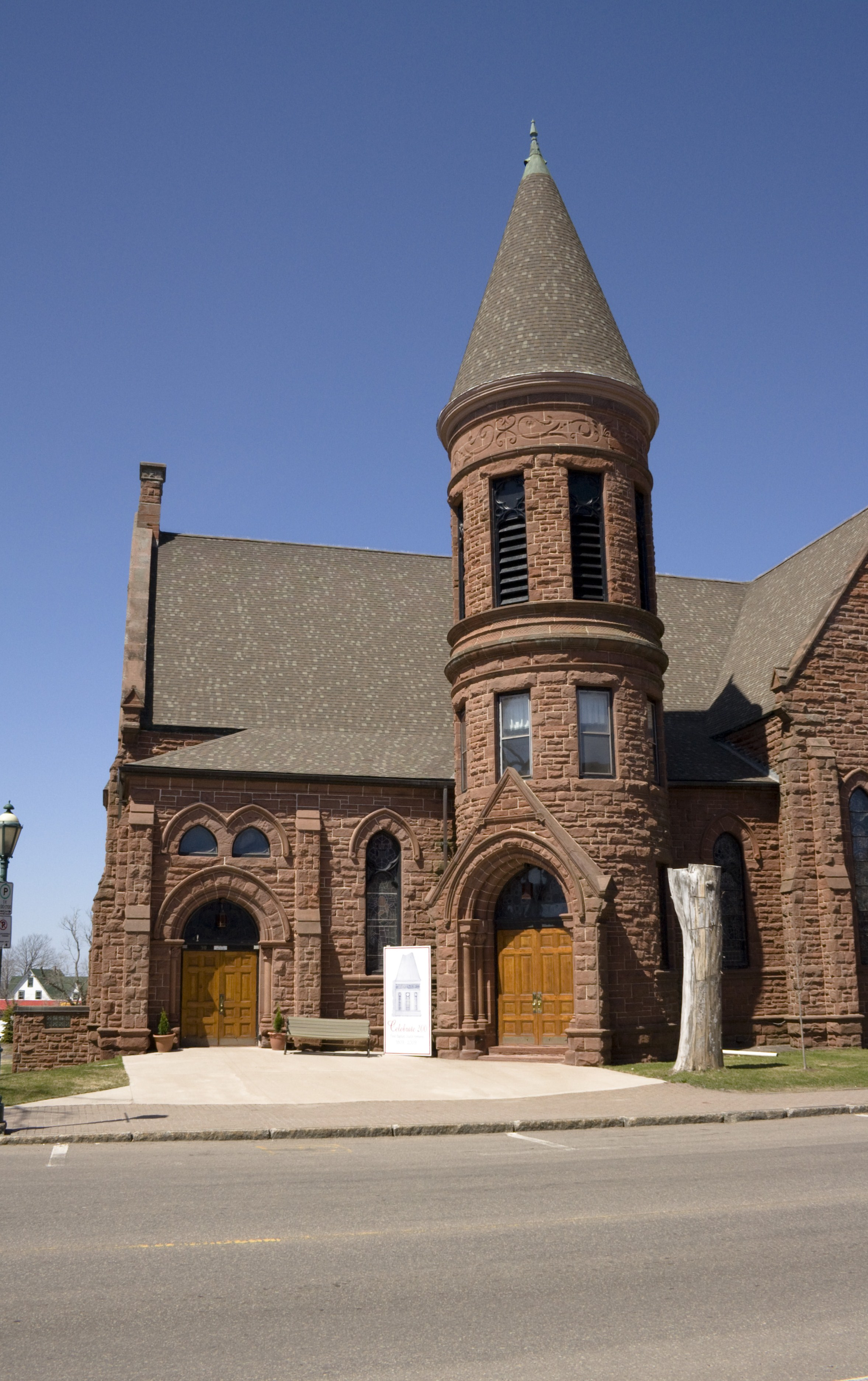 First Baptist Church on West Victoria Street, Amherst, Nova Scotia, Canada